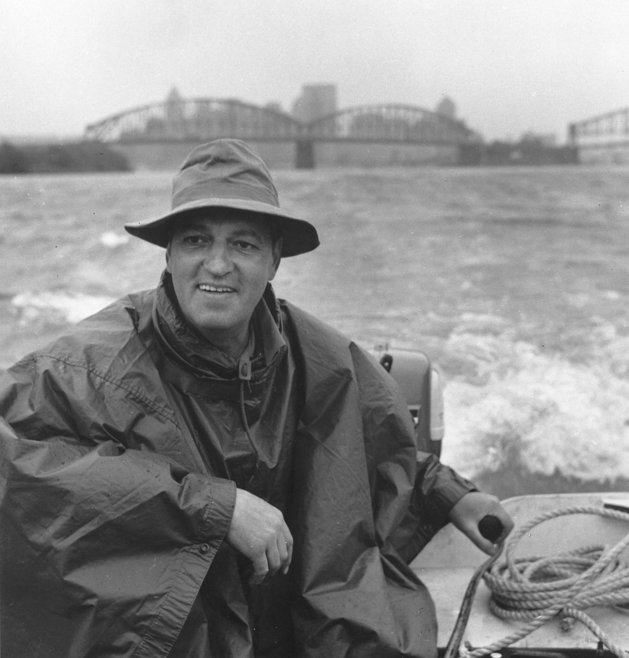 Portrait of Todd Webb